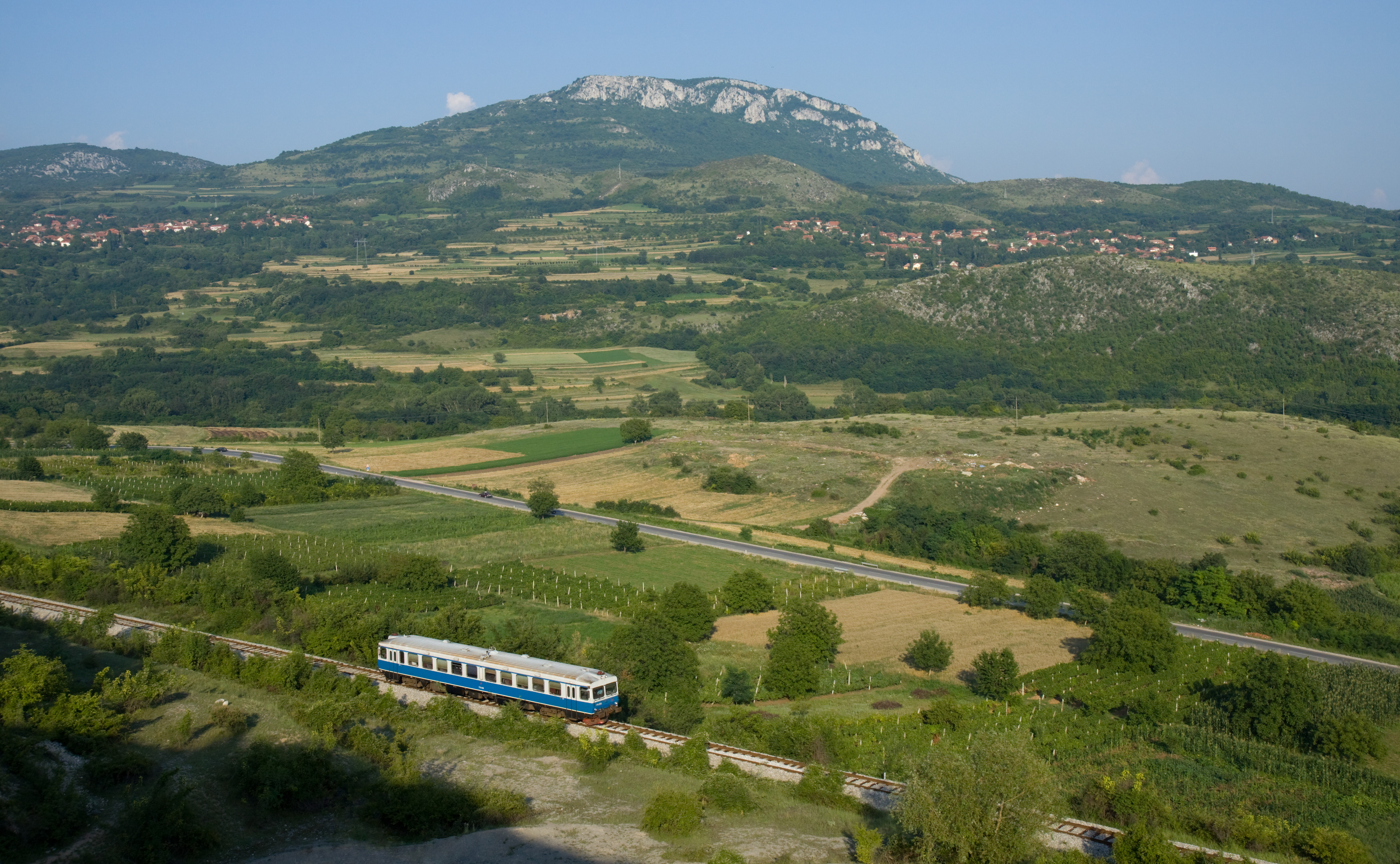 A former SJ Y1, now Železnice Srbije class 710, on its way to Niš, Serbia. The picture was taken between Jasenovik and Vrelo. Digitally removed a few blades of grass in the shade, lower left corner.